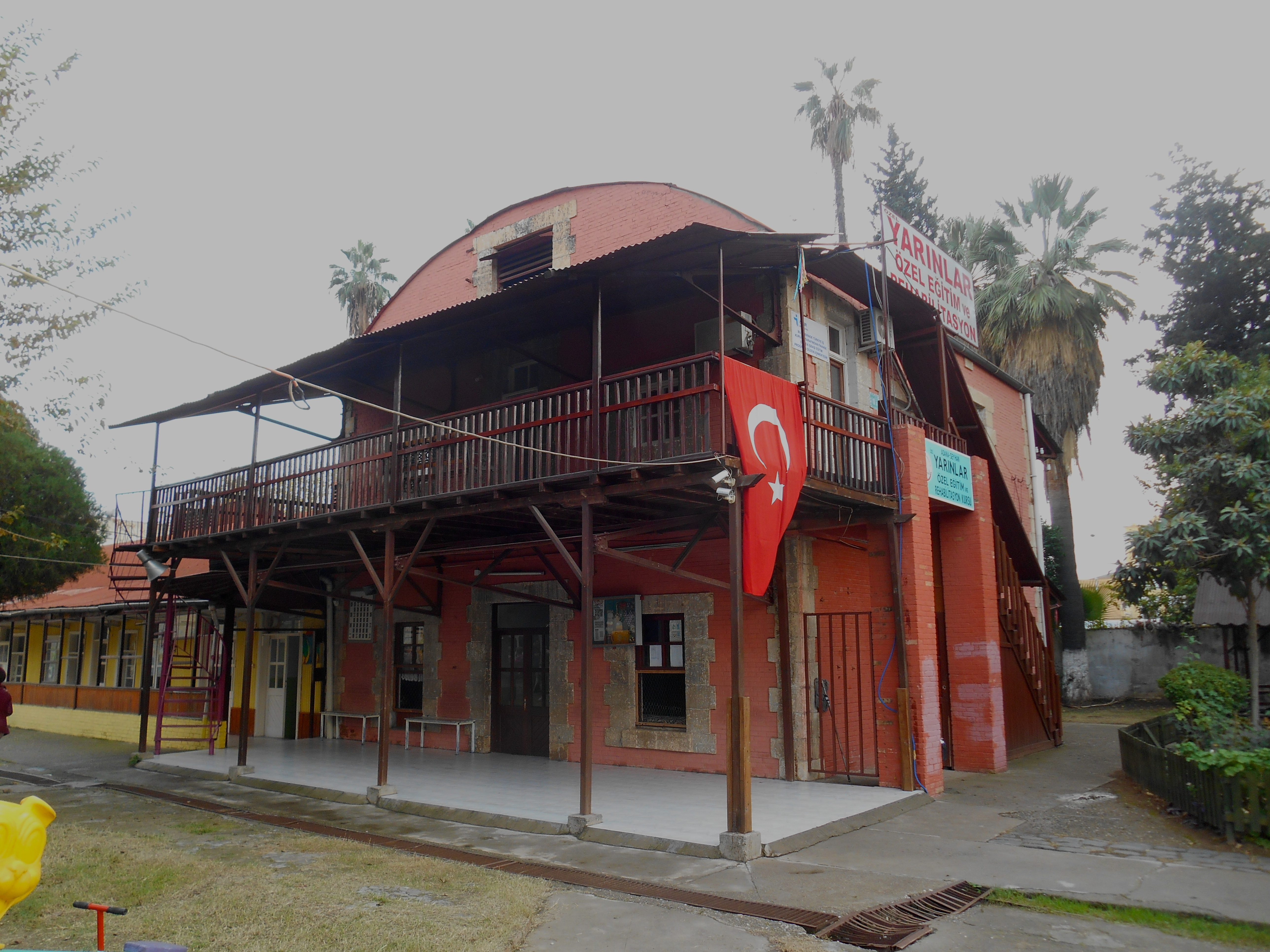 Front view